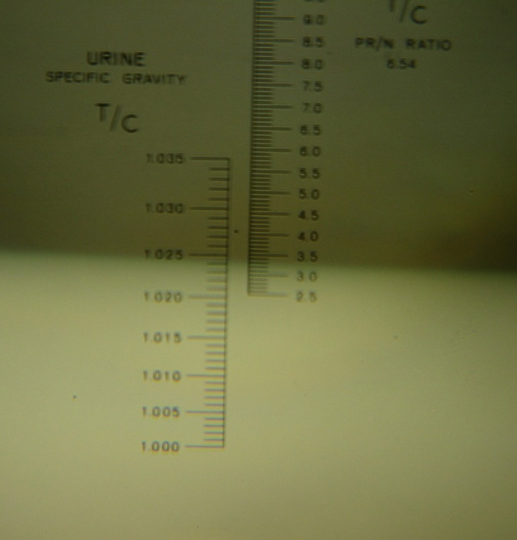 Specific gravity, urine sample.